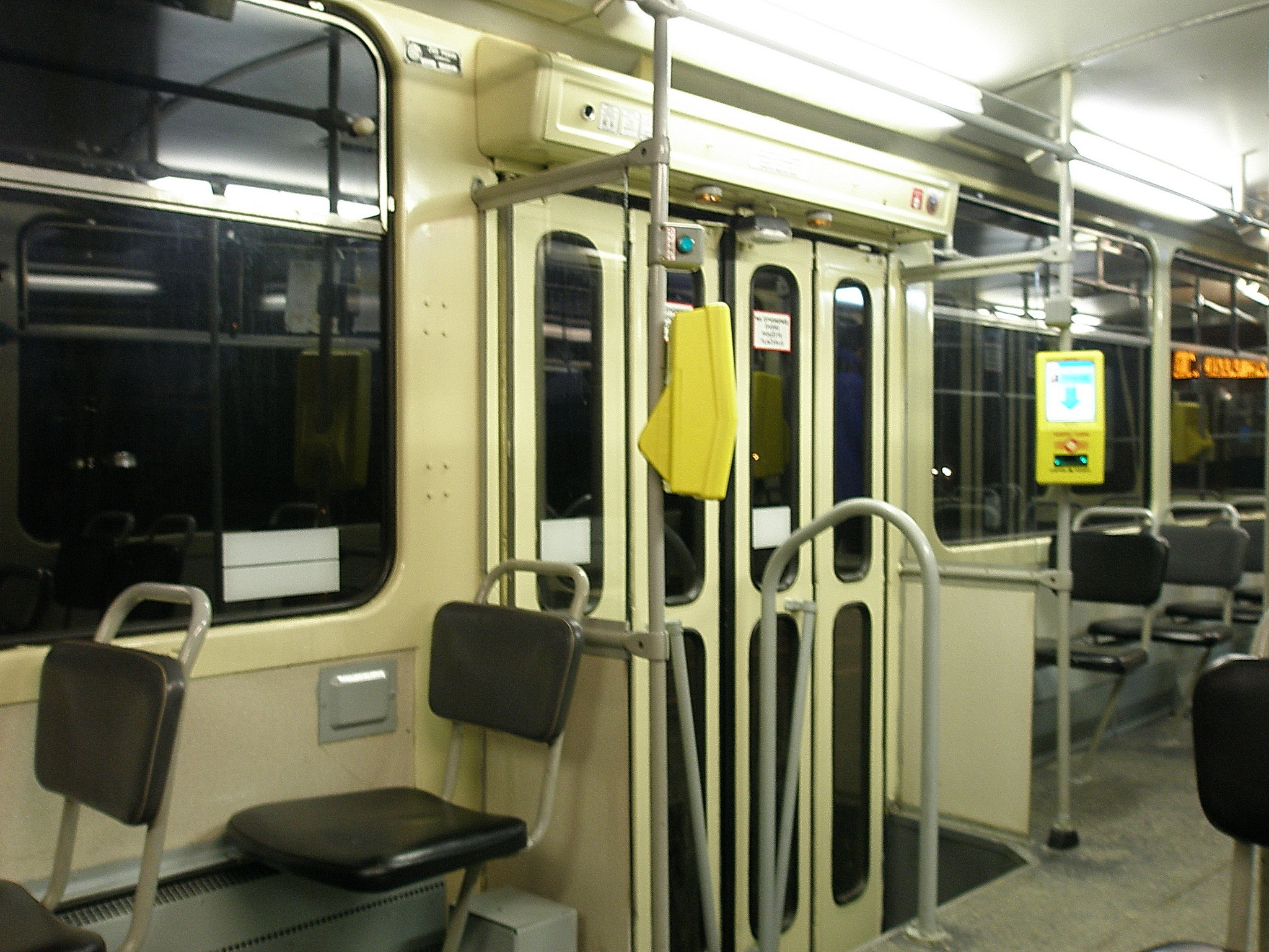 Interior and door in Tatra T6A5 Light Rail vehicle. Light Rail System in Košice, Slovakia.